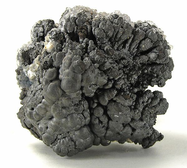 Psilomelane Locality: Iron Chief and Ferro Group (Iron Chief; Argus Range), Inyo County, California, USA (Locality at ) Size: 6.7 x 5.8 x 5.1 cm. From the noted California collection of Charles Hansen - a specimen of the weird-looking manganese oxide psilomelane, looking more biological than mineralogical! U.S. specimens are uncommon on the market. Old California material, and a pretty good one!